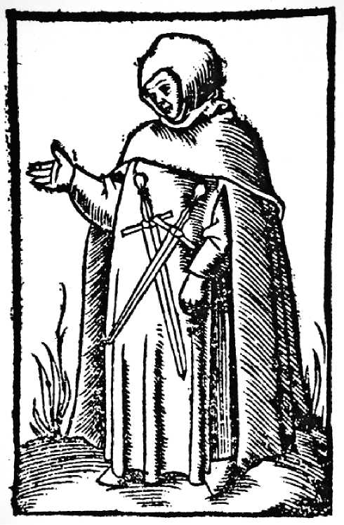 Amanieu I, Archbishop of Auch.Order of the Faith and Peace